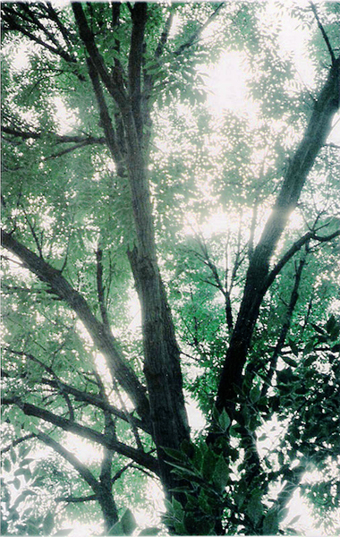 Near Nichols Arboretum in Ann Arbor